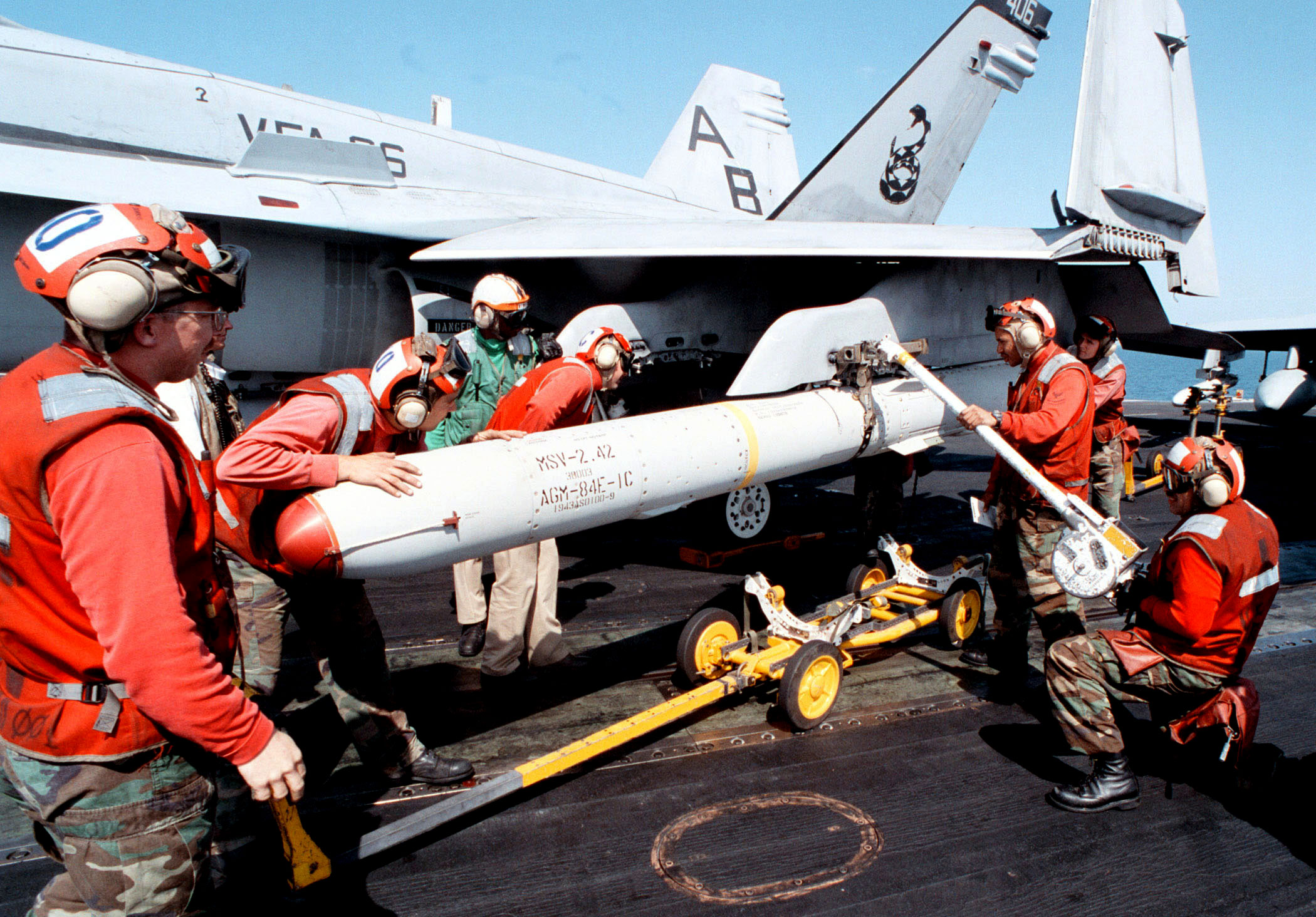 Aviation ordnancemen load an AGM-84E Standoff Land-Attack Missile onto an F/A-18C Hornet on the flight deck of the aircraft carrier USS George Washington (CVN 73) as the ship steams in the Persian Gulf on Feb. 20, 1998. The Washington battle group is operating in the Persian Gulf in support of Operation Southern Watch which is the U.S. and coalition enforcement of the no-fly-zone over Southern Iraq. From left to right are: David Dorris, from Jacksonville, Fla., Joel Kopp, from Ransomville, N.Y., Keith Collins, from Glen St. Mary, Fla., Alvin Toney, from Worchester, Mass., and Hector Hernandez. The Hornet is from Strike Fighter Squadron 86, Naval Air Station Cecil Field, Fla.